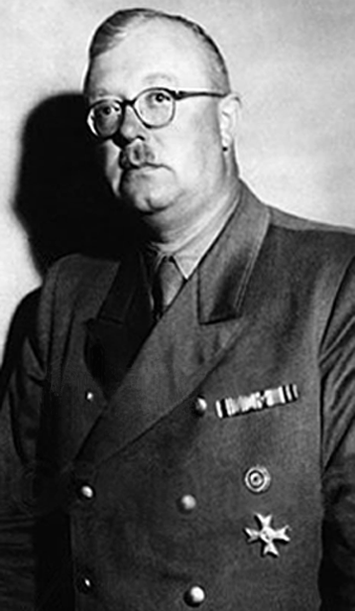 Scan of Hinrich Lohse's photograph next to his announcement to the Latvian people on the front page of the latvian Tavija newspaper